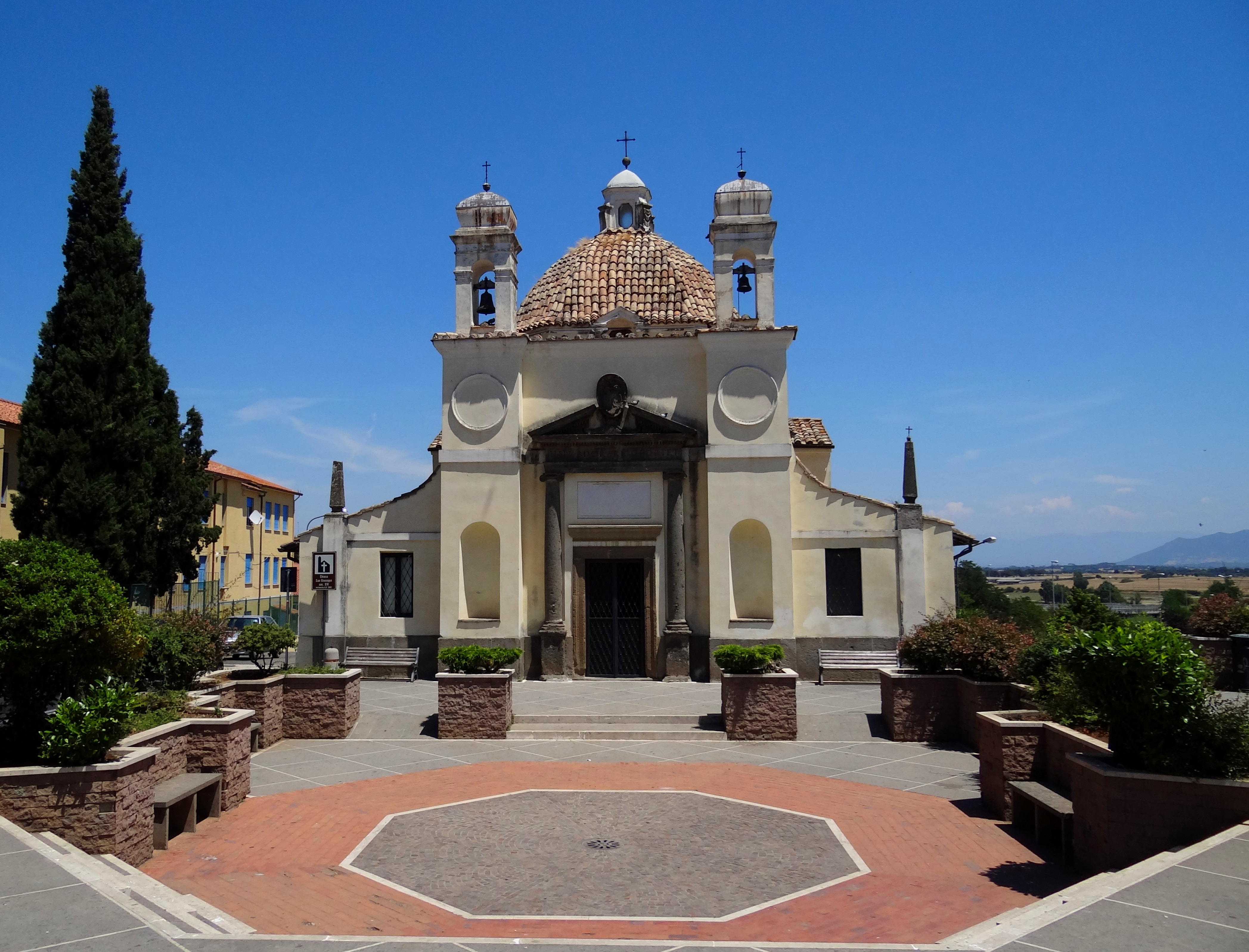 The church Chiesa San Giuseppe in Monterosi, Lazio, Italy.